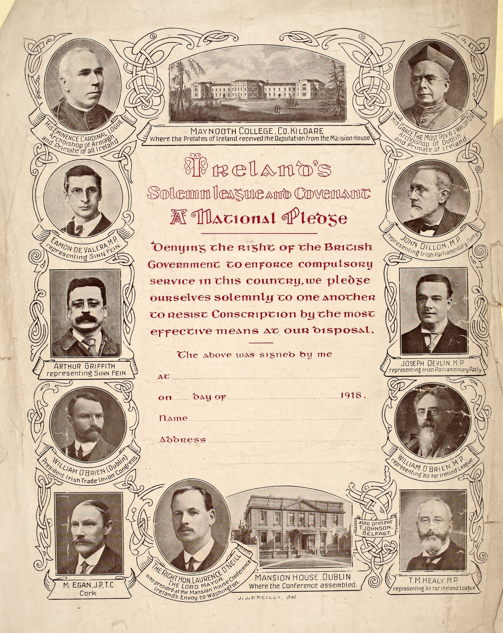 On 18 April 1918, a conference held in the Mansion House Dublin, was attended by a wide range of organisations. A coalition emerged from this meeting and formed an effective anti-conscription movement. The document shows portraits of Bishops Conference and Mansion House Committee members